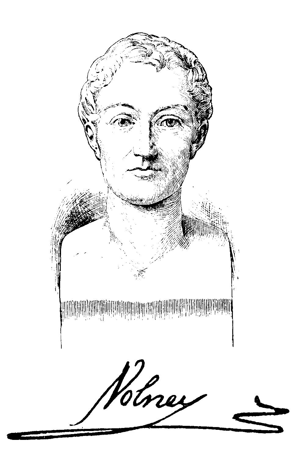 The French philosopher and historian Constantin-François Chassebœuf de La Giraudais, comte Volney, known as Volney